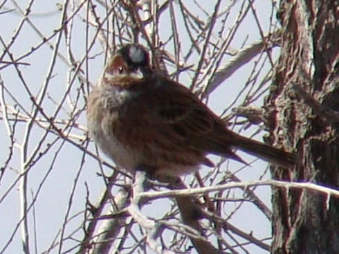 Pine Bunting (Emberiza leucocephalos or Emberiza leucocephala). Baikonur-town, Kazakhstan.